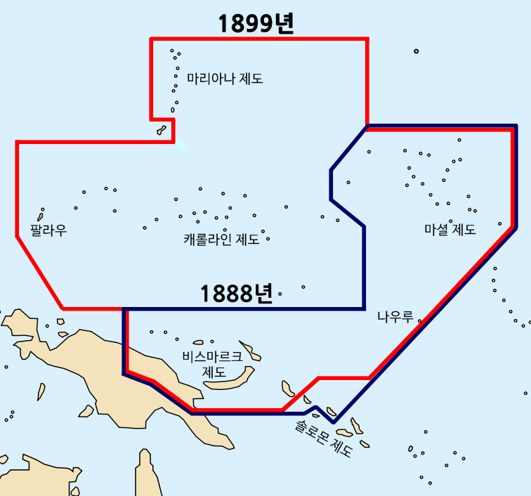 Borders of German New Guinea 1888 and 1899.